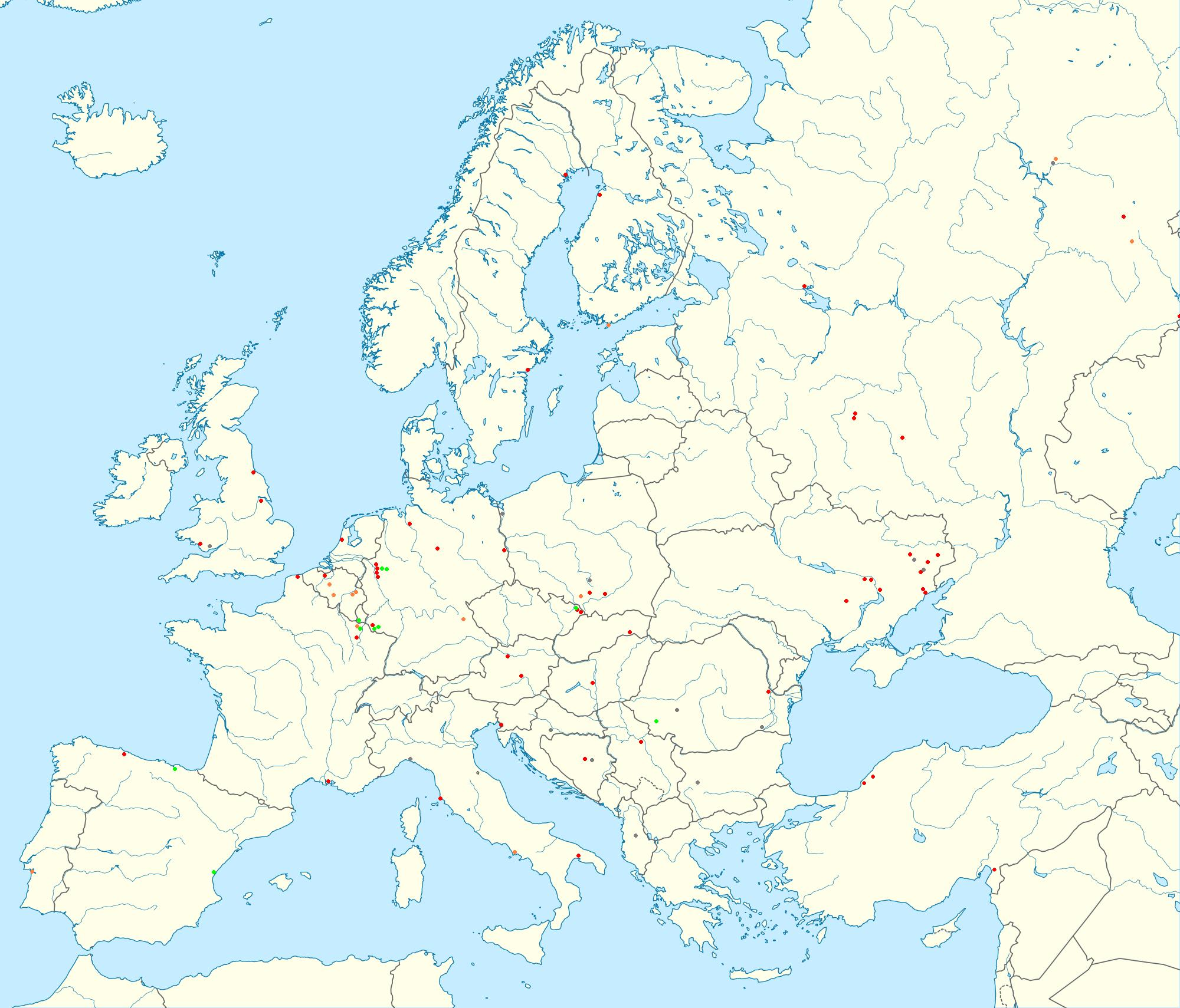 Locations of blast furnaces in Europe in the early 21st century — between 2000 and 2015 years. In these places on the map, that are acting steelworks and plants or are closed factories and plants or just an areas of former steelworks and plants, may be more than one blast furnace. Red color — working blast furnaces, orange color — shut down blast furnaces, green — blast furnaces that they left as monuments of industrial history, gray — dismantled blast furnaces.